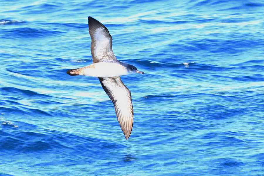 Pink-footed Shearwater (ventral view), Monterey, California, USA